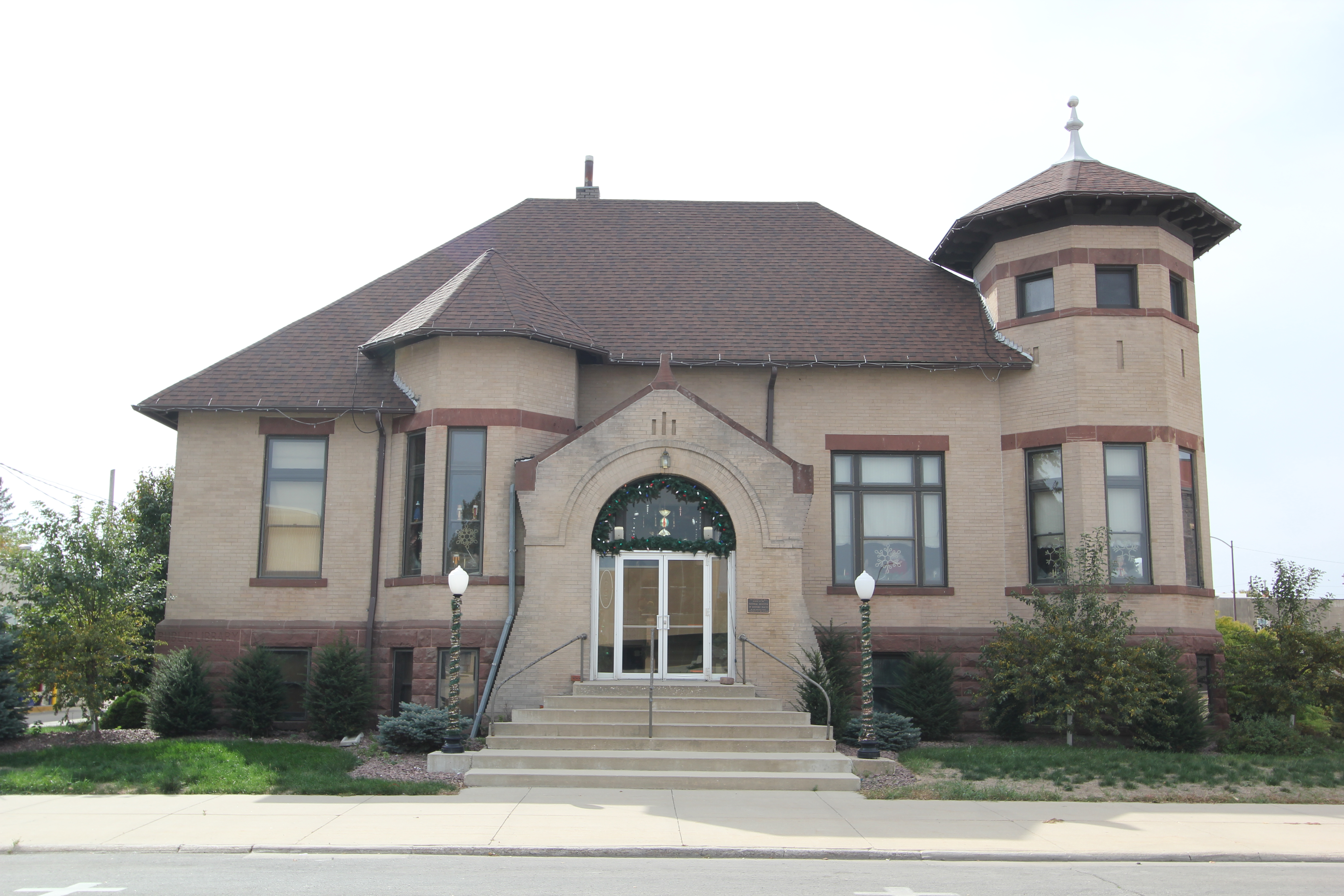 This is the former Storm Lake Public Library building, a Carnegie library. The Storm Lake Public Library has relocated to a new building. This building is currently being used for Santa's Castle.